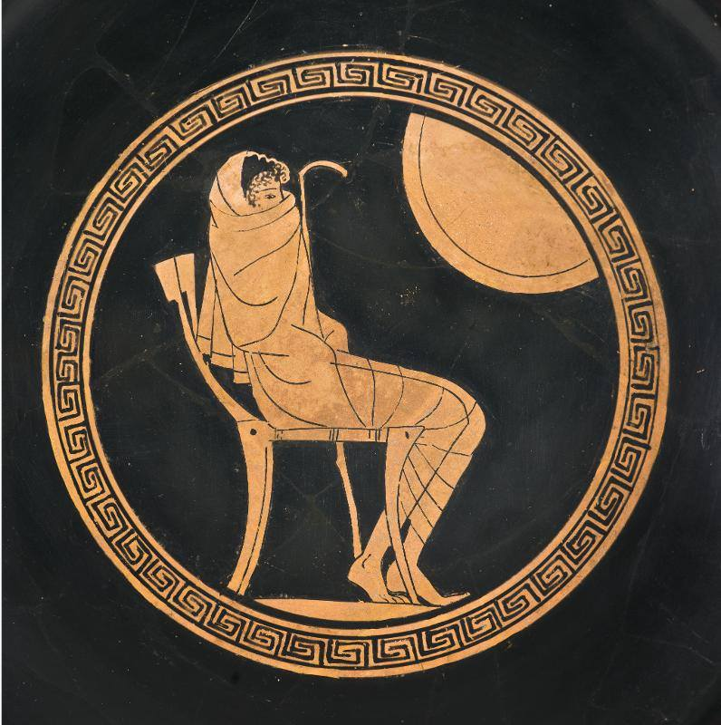 Sitting Achilles wrapped in a himation, depicted on a greek kylix from ca 500 BC